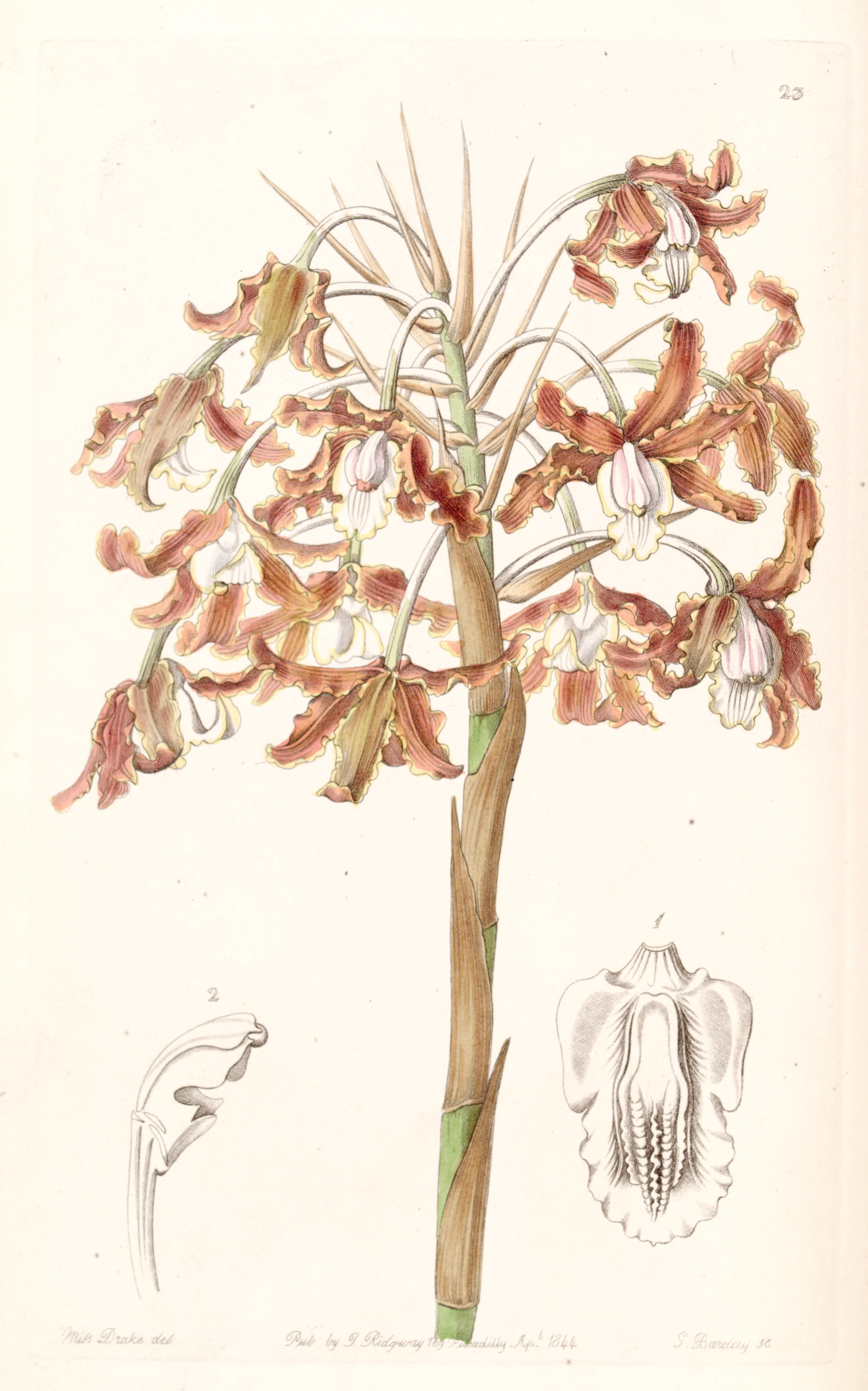 Schomburgkia crispa (syn. of Laelia marginata)